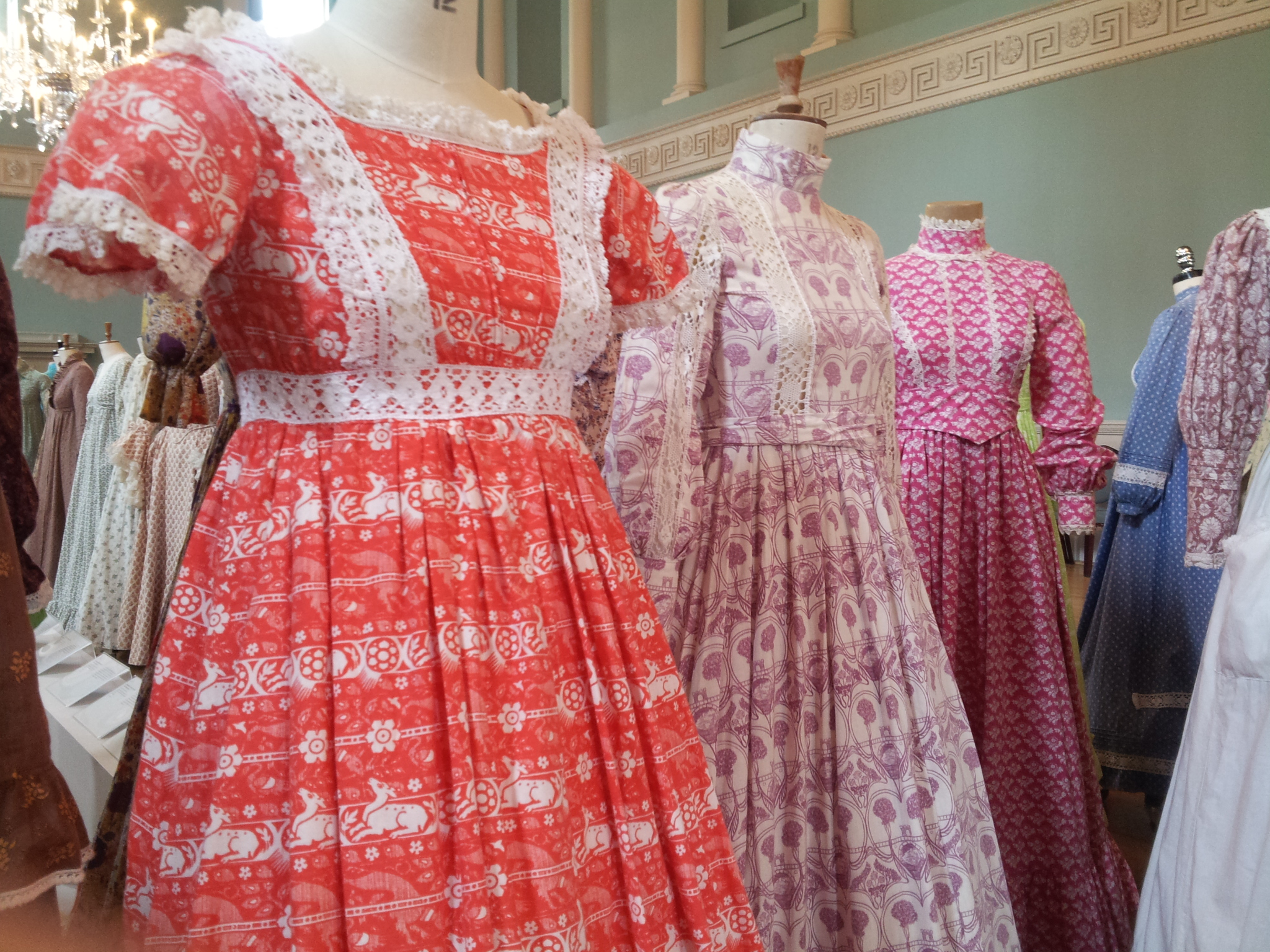 Printed cotton dresses made by Laura Ashley in the mid 1970s, on display at the Fashion Museum, Bath, 2013. Visitors to the exhibition were explicitly encouraged to take photographs for digital sharing.